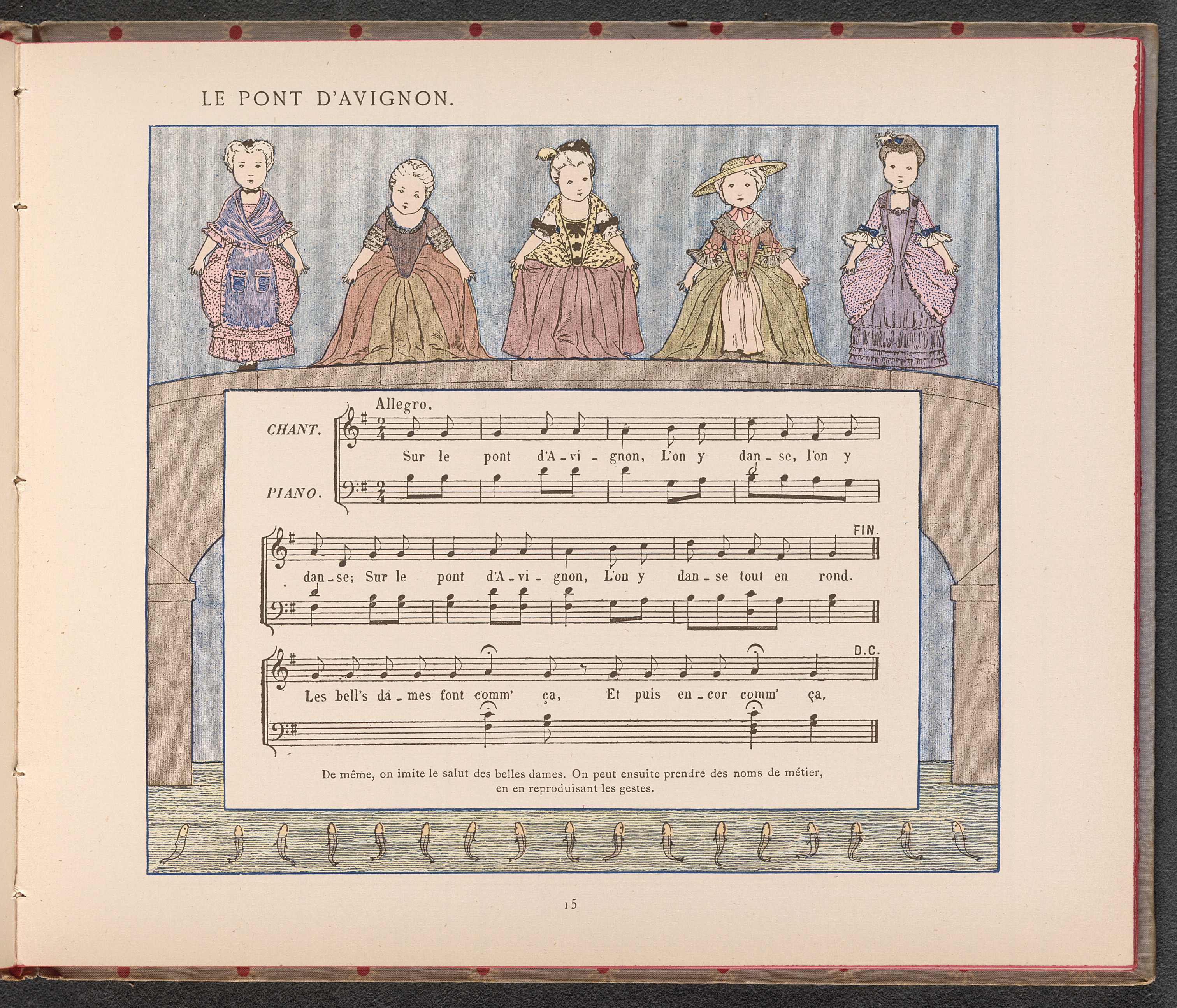 "Le Pont d'Avignon" (page 1 of 2), sheet music with illustration from a French children's book Vieilles Chansons pour les Petits Enfants: Avec Accompagnements (Old Songs for Small Children with Accompaniments).